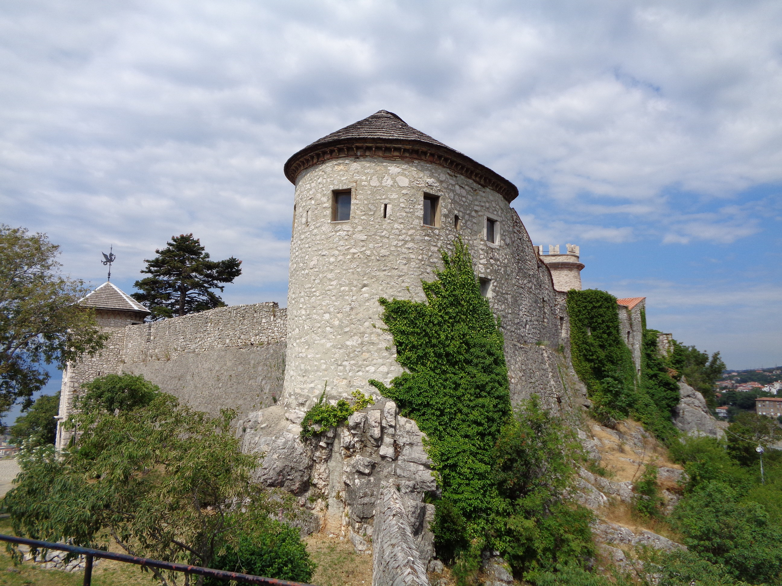 Trsat Castle in Rijeka, Primorje-Gorski Kotar County, western Croatia - oval tower (southeast view)